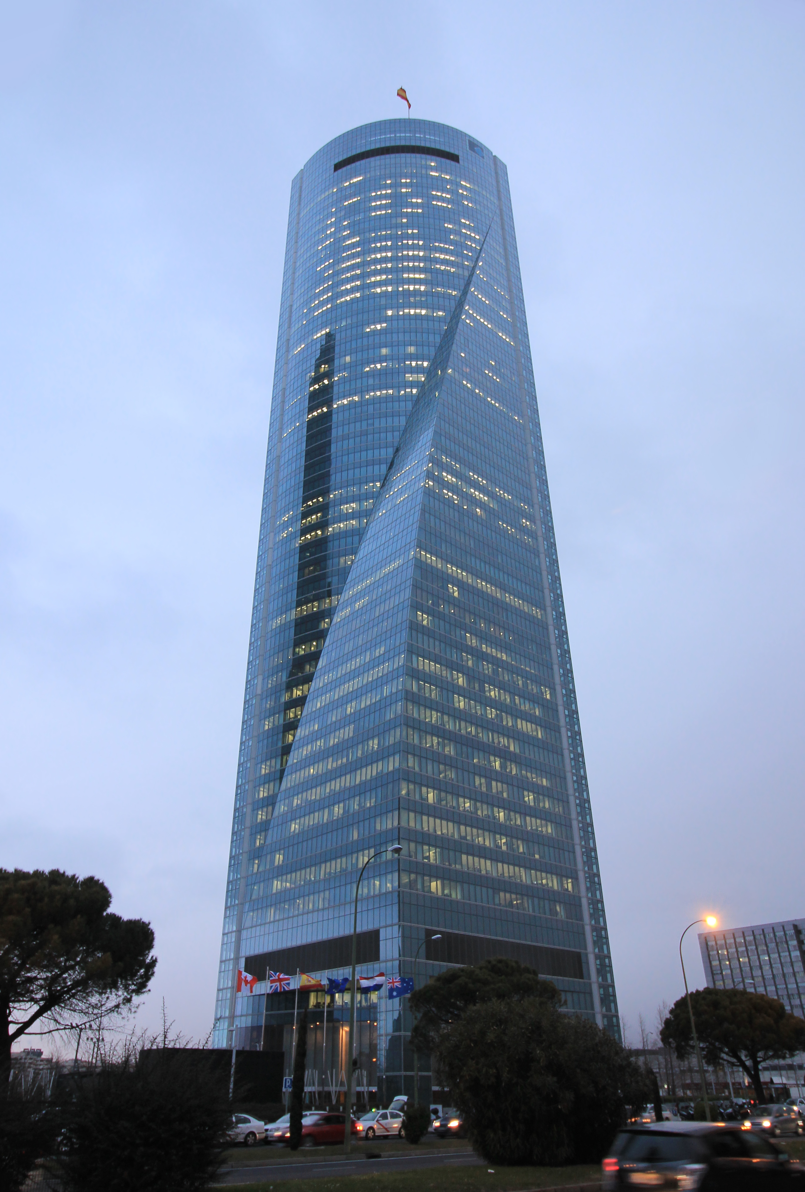 View of Torre Espacio in Cuatro Torres Business Area (Madrid, Spain) from the south-east angle. Photo taken from Paseo de la Castellana (avenue).